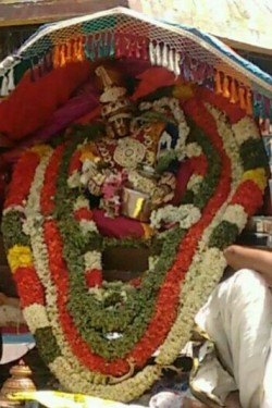 Thanjavurnavaneethasevai தஞ்சாவூர்நவநீதசேவை